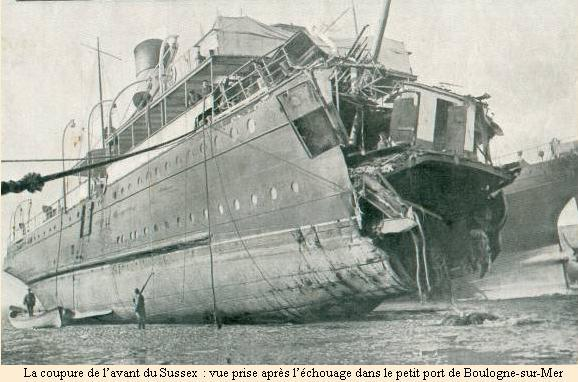 Cross-channel ferry "Sussex" at Boulogne in 1916, showing the effect of torpedo attack by the German U-boat UB-29